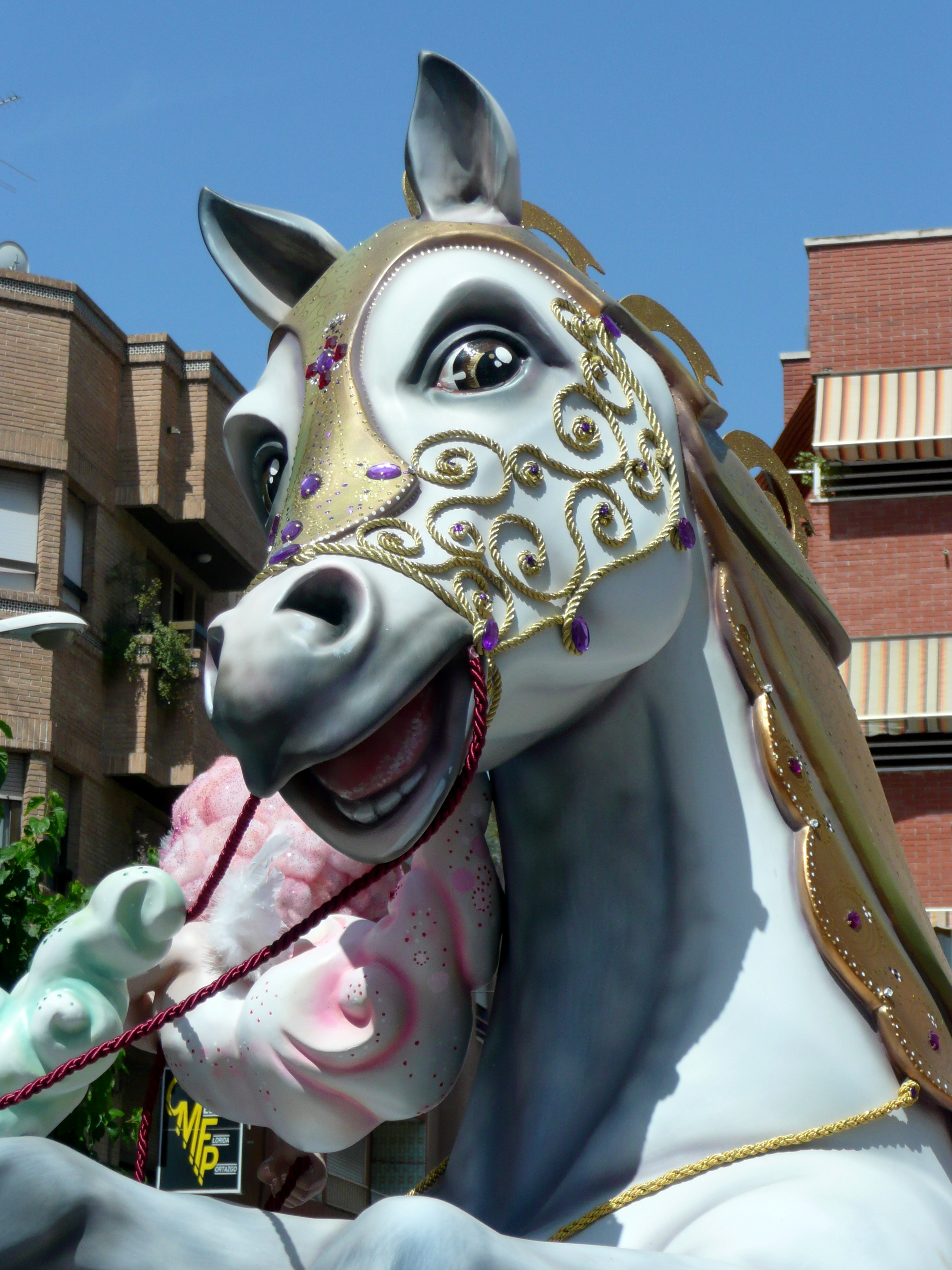 Hogueras 2009 Florida Portazgo Hogueras 2009 set by Fernando Pastor at Flickr